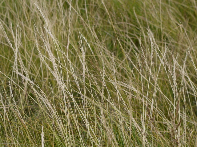 Nardus stricta grass in August, in Cumbria